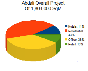 Graph transcribed from Abdali.jo, but made on OpenOffice by me.